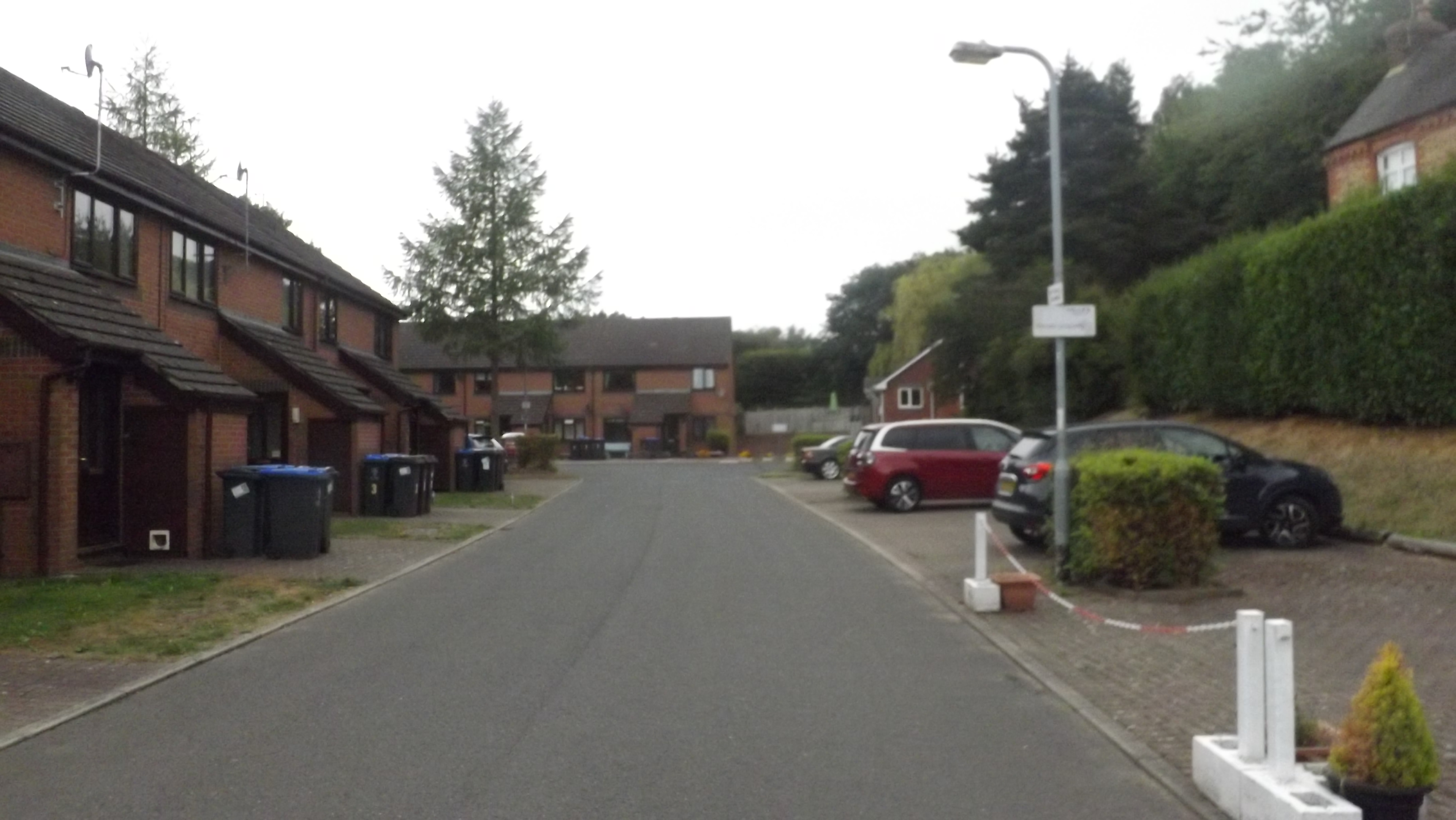 Former site of Cheadle railway station.